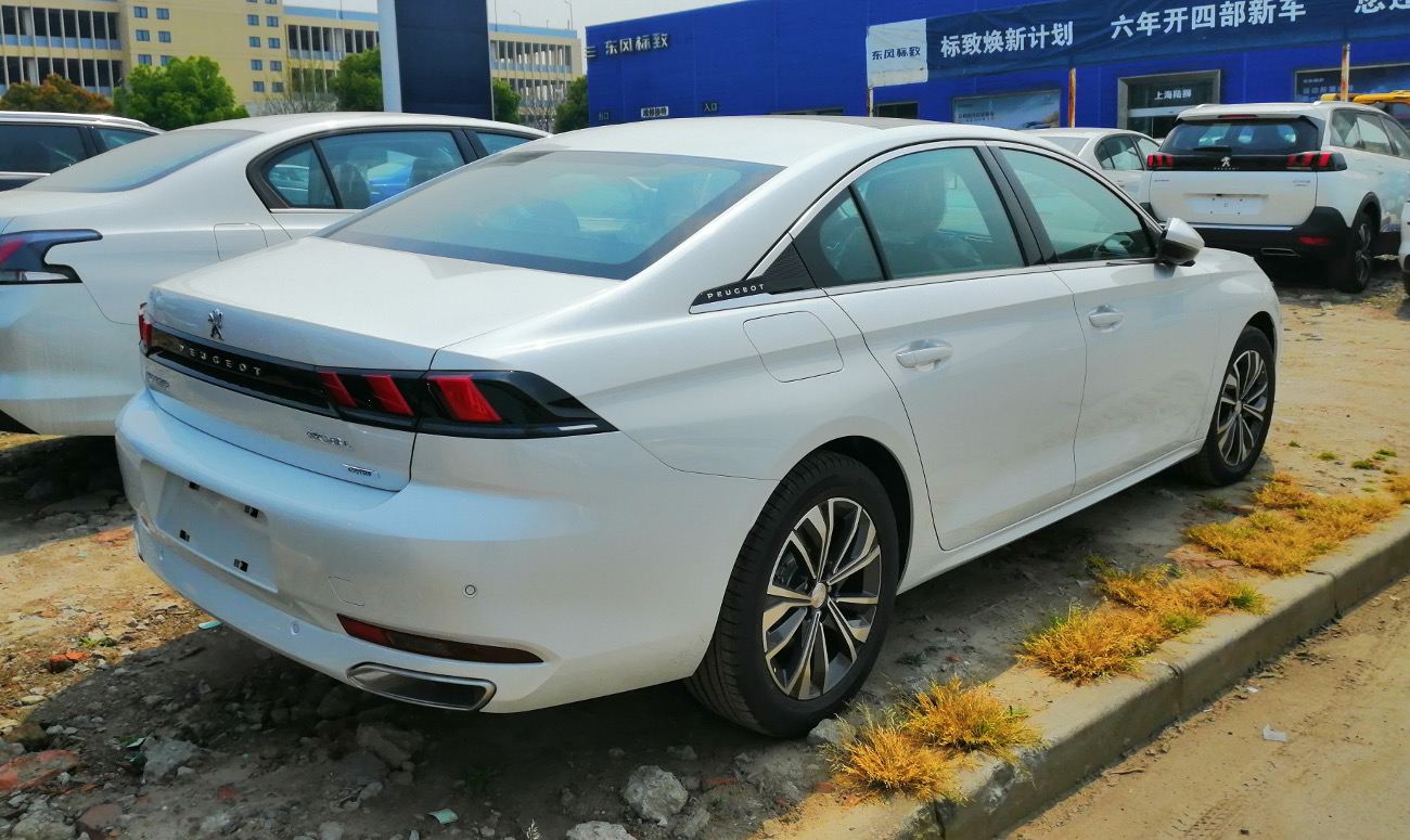 Peugeot 508L photographed in Shanghai, China.